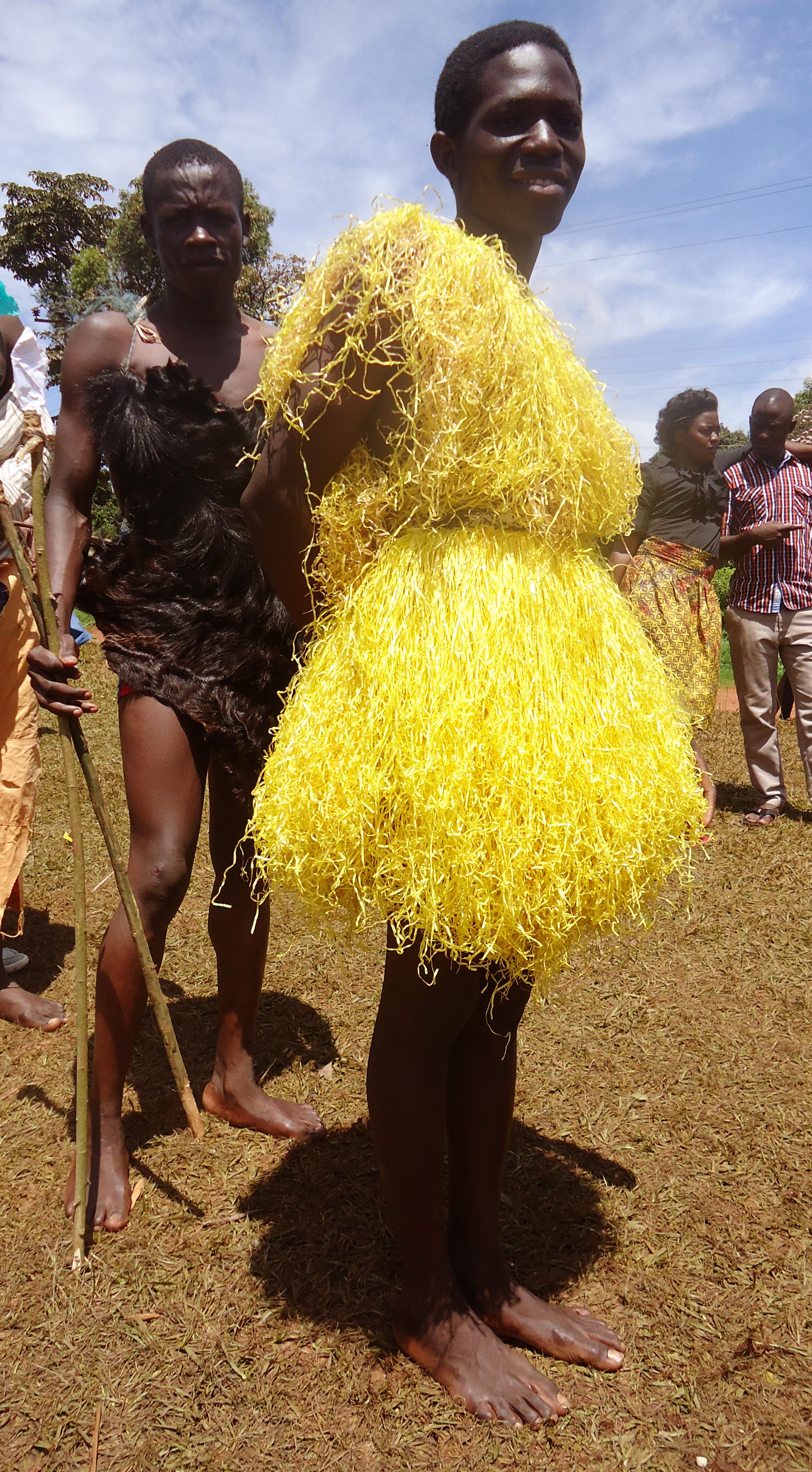 This is an image of Cultural Fashion or Adornment from Uganda